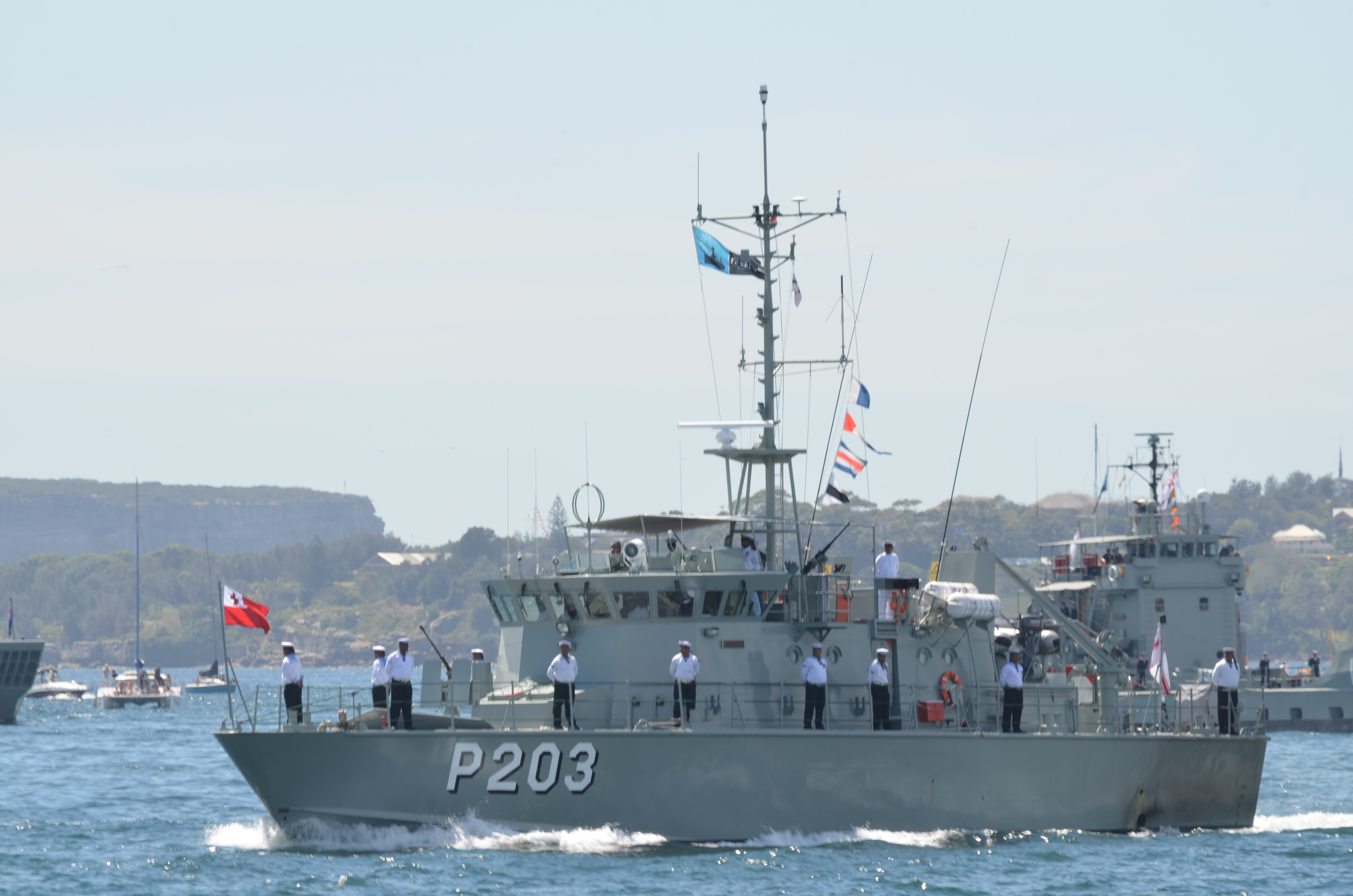 Photographs taken during day 3 of the Royal Australian Navy International Fleet Review 2013. The Tongan patrol boat Savea underway on Sydney Harbour.